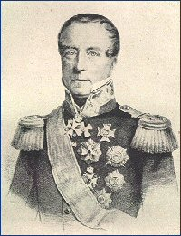 Portrait of general Hendrik George de Perponcher Sedlnitsky